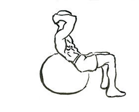 an exercise of abs